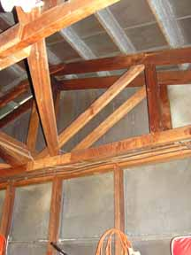 Interior view, Lustron G-2 garage. Framing for the garages was in wood, whereas the characteristic porcelain-enameled steel panels comprised the outside.